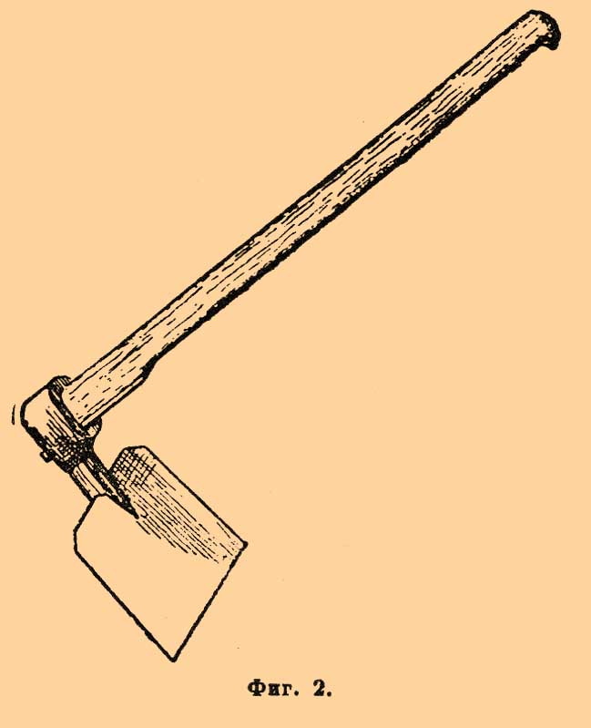 Illustration from Brockhaus and Efron Encyclopedic Dictionary (1890—1907)